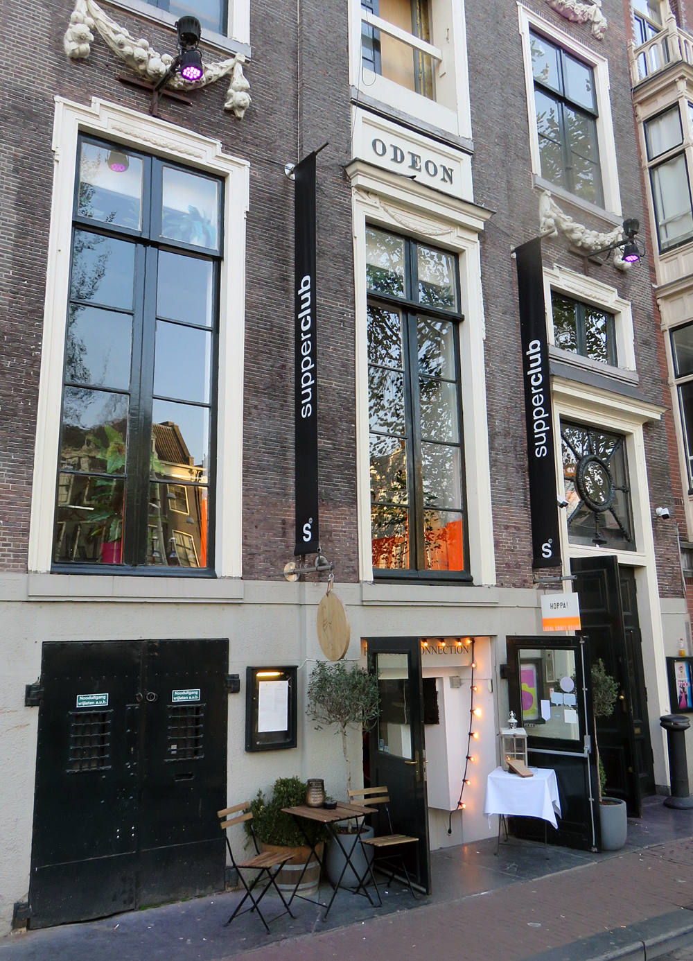 The nightclub Supperclub, which is located in the Odeon building at Singel 460 in Amsterdam since 2015.